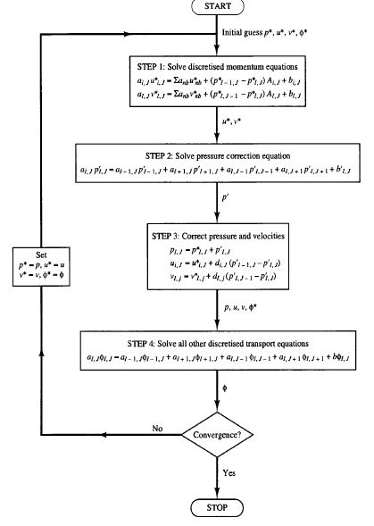 Flow chart for SIMPLE Algorithm